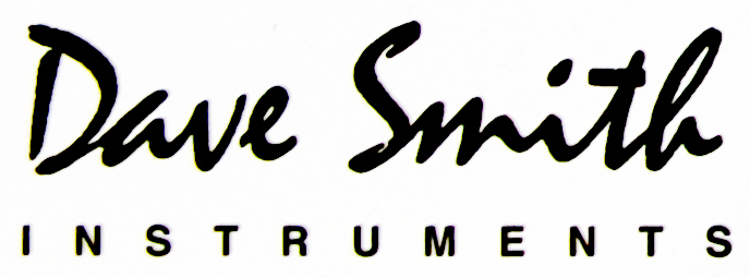 Dave Smith Instruments logo (black on white, 688 × 255)